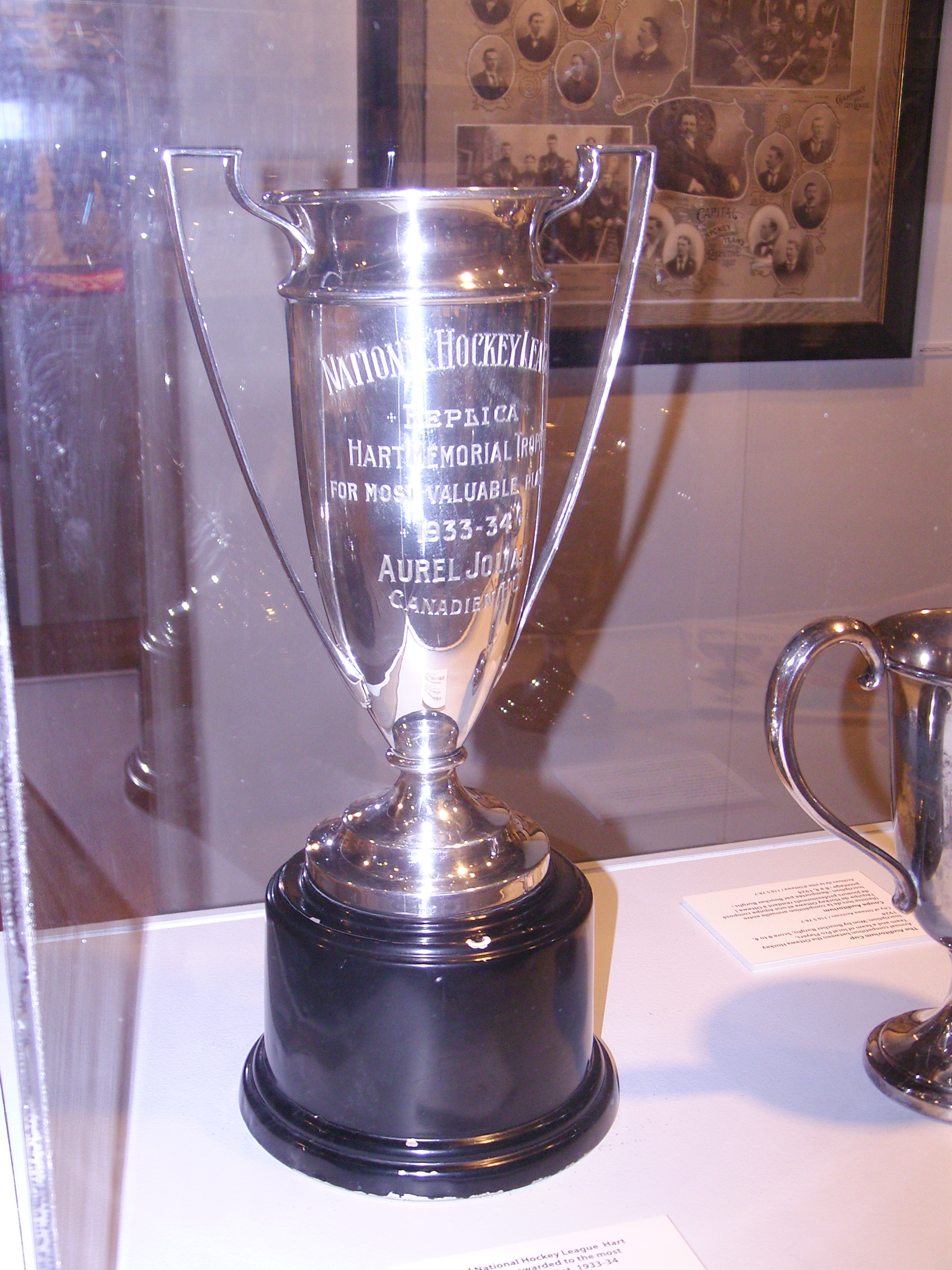 Joliet received this replica of the Hart Memorial Trophy. It is now in the collection of the City of Ottawa Archives.